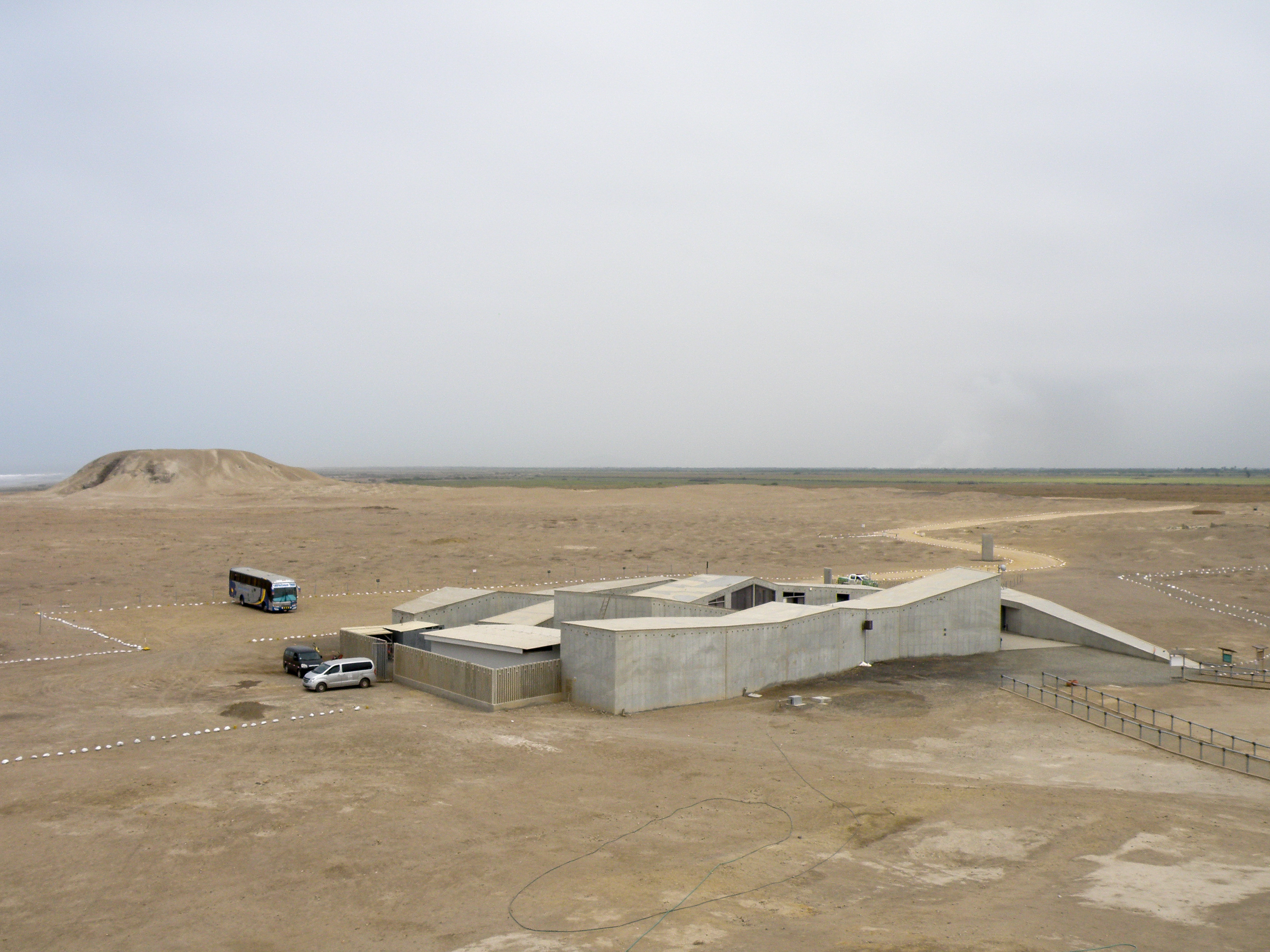 The Cao Museum is located on the El Brujo archaeological site near Trujillo in Peru.